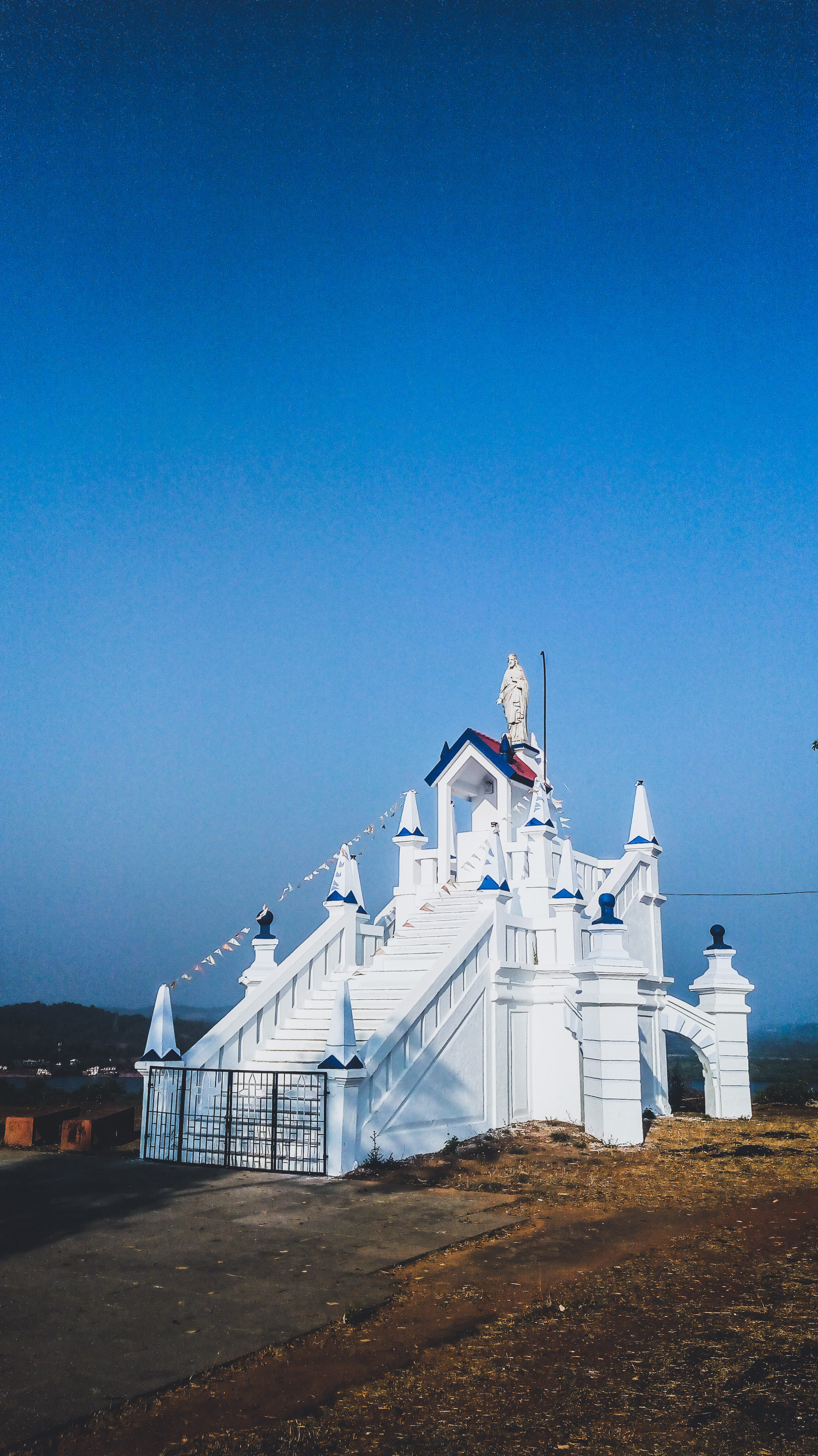 St. Estevam church is located in old Goa near the Estevam fort